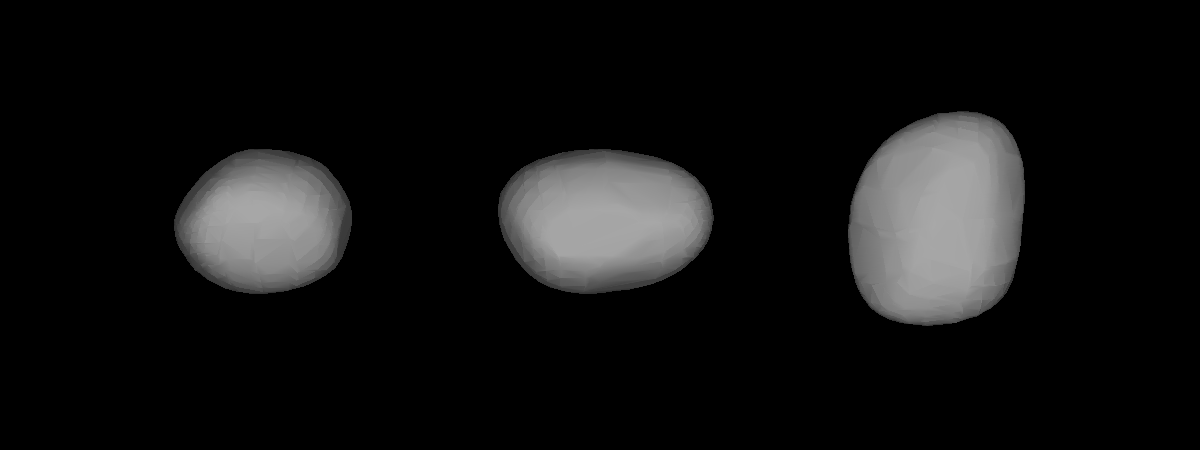 A three-dimensional model of 16 Psyche that was computed using light curve inversion techniques.